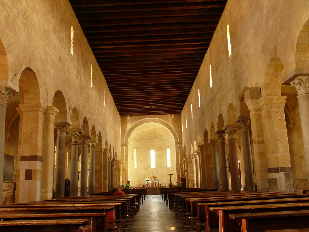 basilica san gavino, portotorres, sassari, sardinia, italy